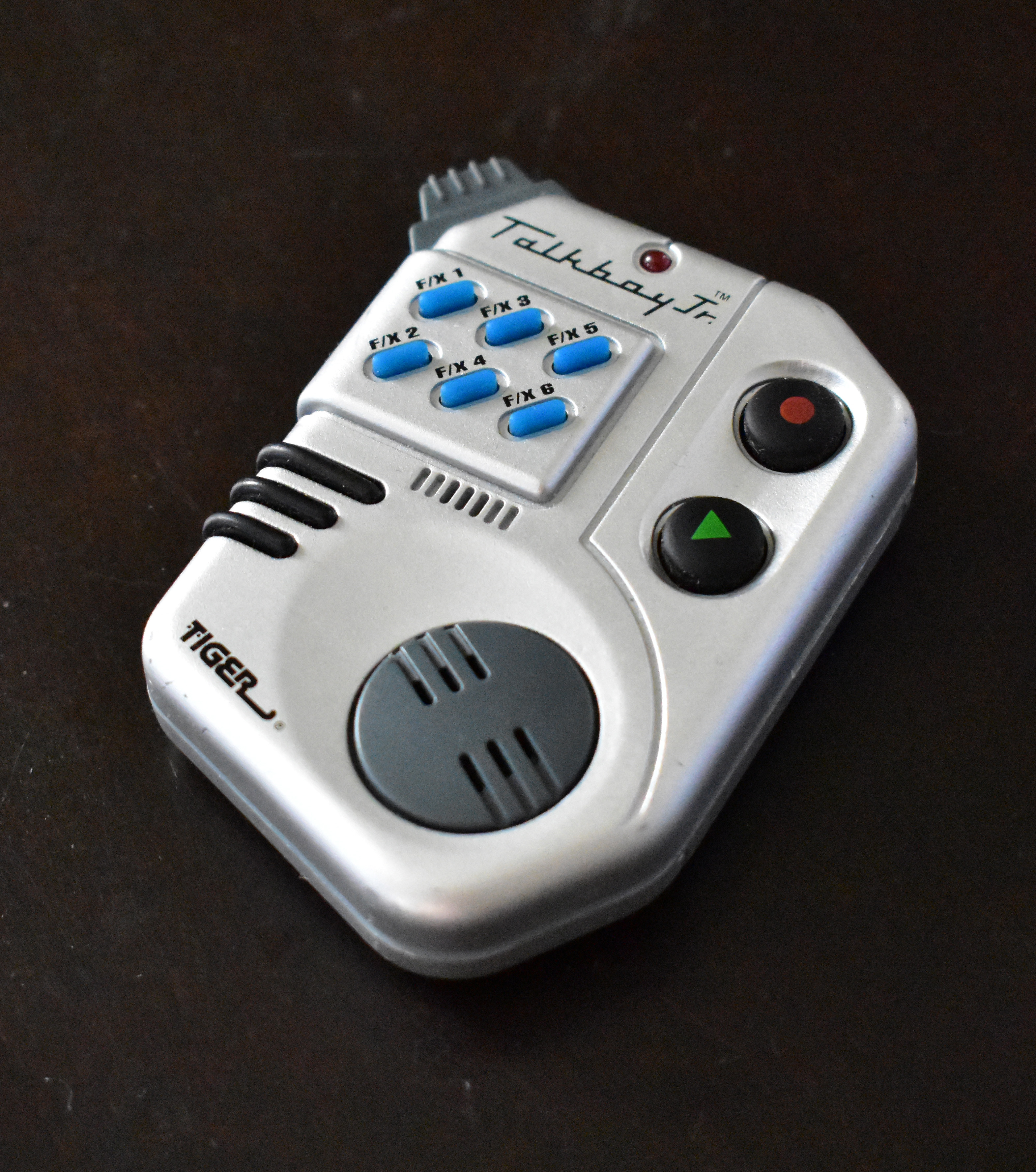 A Talkboy Jr. handheld electronic voice recorder toy developed by Tiger Electronics